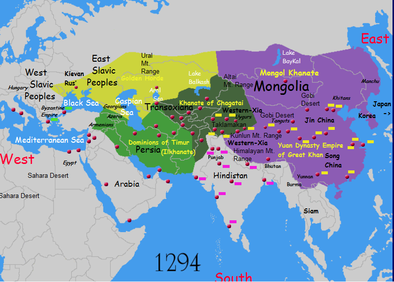 Chaghatai Khanates